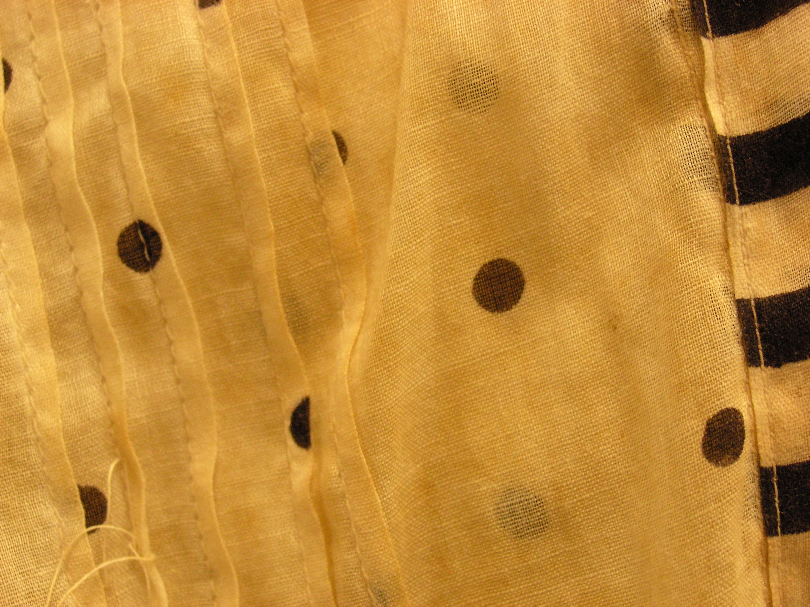 Afternoon dress- black and white spotted muslin full length two piece dress with leg o'mutton sleeves .1 bodice, leg o' mutton sleeves; trimmed with black and white stamped muslin forming cummerbund; small black bow (s); .2 skirt, full length, front panel edged with black and white stripe, around hem Afternoon dress; two piece in very soft thin cotton fabric – cream coloured with printed black spots and black striped trim. Skirt has three front panels slightly gathered and gored, and six back panels heavily gathered and gored (no lining or underskirts). Three inch deep vertical striped banding at hem. Approx (approximately) six yds (yards) wide at hem. Separate bodice cut long to tuck into waist band. Lined in cotton. Hooked back fastening and attached shaped waist band. Bodice decorated with black and white bands and gathering at front and back, black velvet bows – sleeves have big puffs and tight down forearm to cuffs.